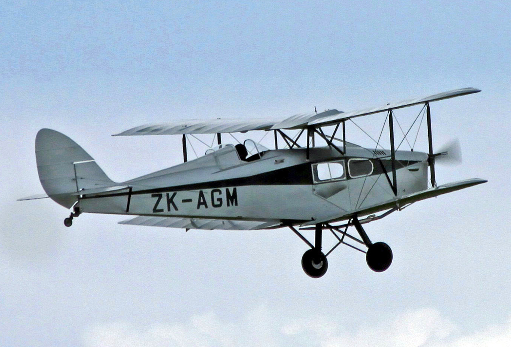 De Havilland DH.83 Fox Moth ZK-AGM at Sywell Aerodrome England in 2015 after a major rebuild in the UK